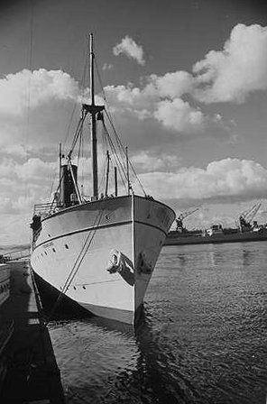 Norwegian steamship SS Tromøsund, built in 1928. This ship was sunk by german aircraft while attempting an escape to Scotland during world war 2. Picture is taken in Pipervika, Oslo